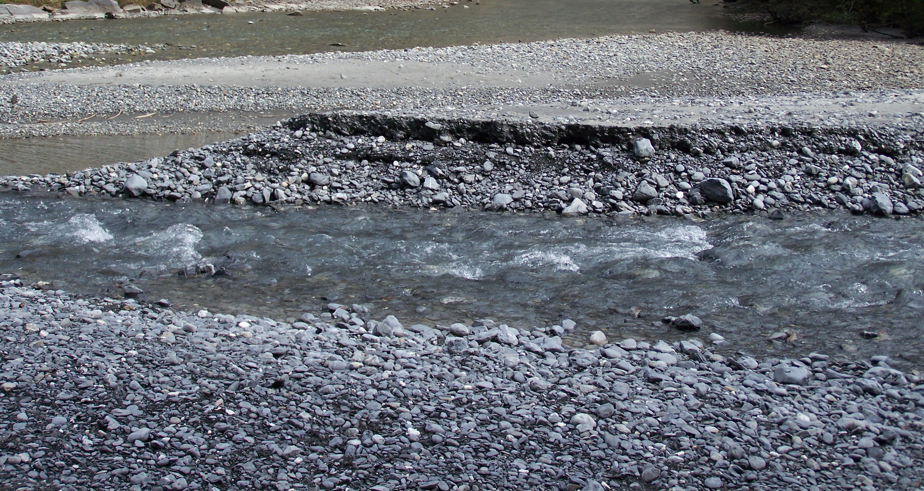 A mountain stream cuts into its own horizontally layered conglomerate deposits. Location: Kander river in the Gasterental, Switzerland.